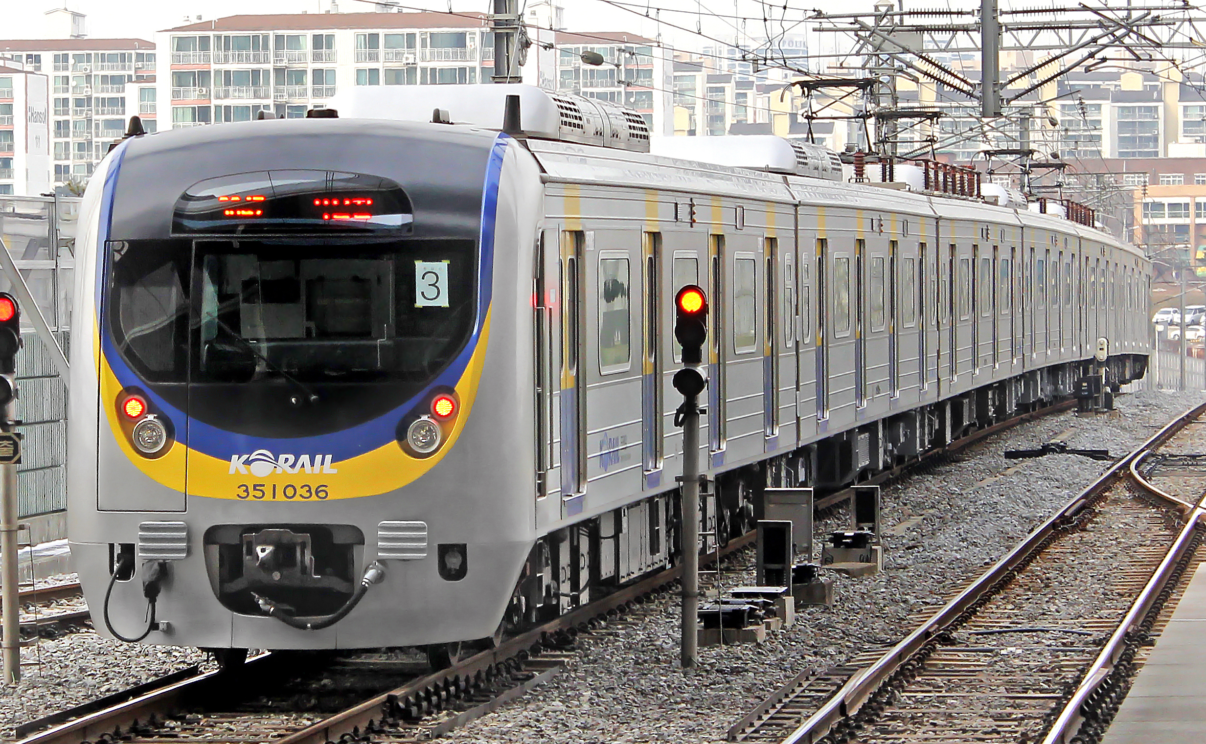 Korail Class 351000(3rd batch) EMU leaving Jukjeon Station.